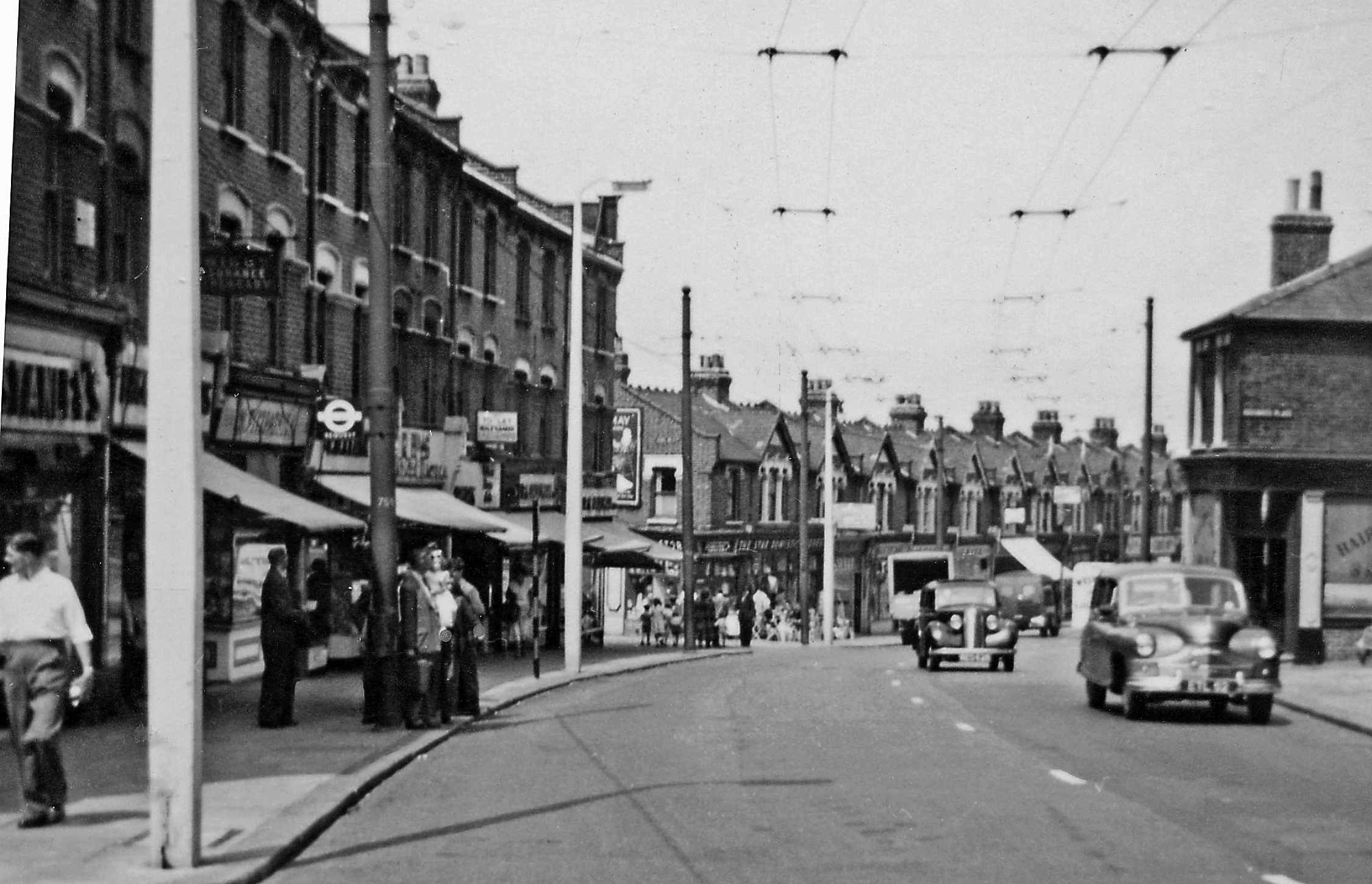 Walthamstow: northward on Hoe Street approaching Forest Road, 1955. An everyday scene in a very suburban area of London. Note the overhead wires for the trolleybuses: three routes to Chingford Mount, No. 557 from Liverpool Street, No. 697 and 699 from Victoria & Albert Docks.